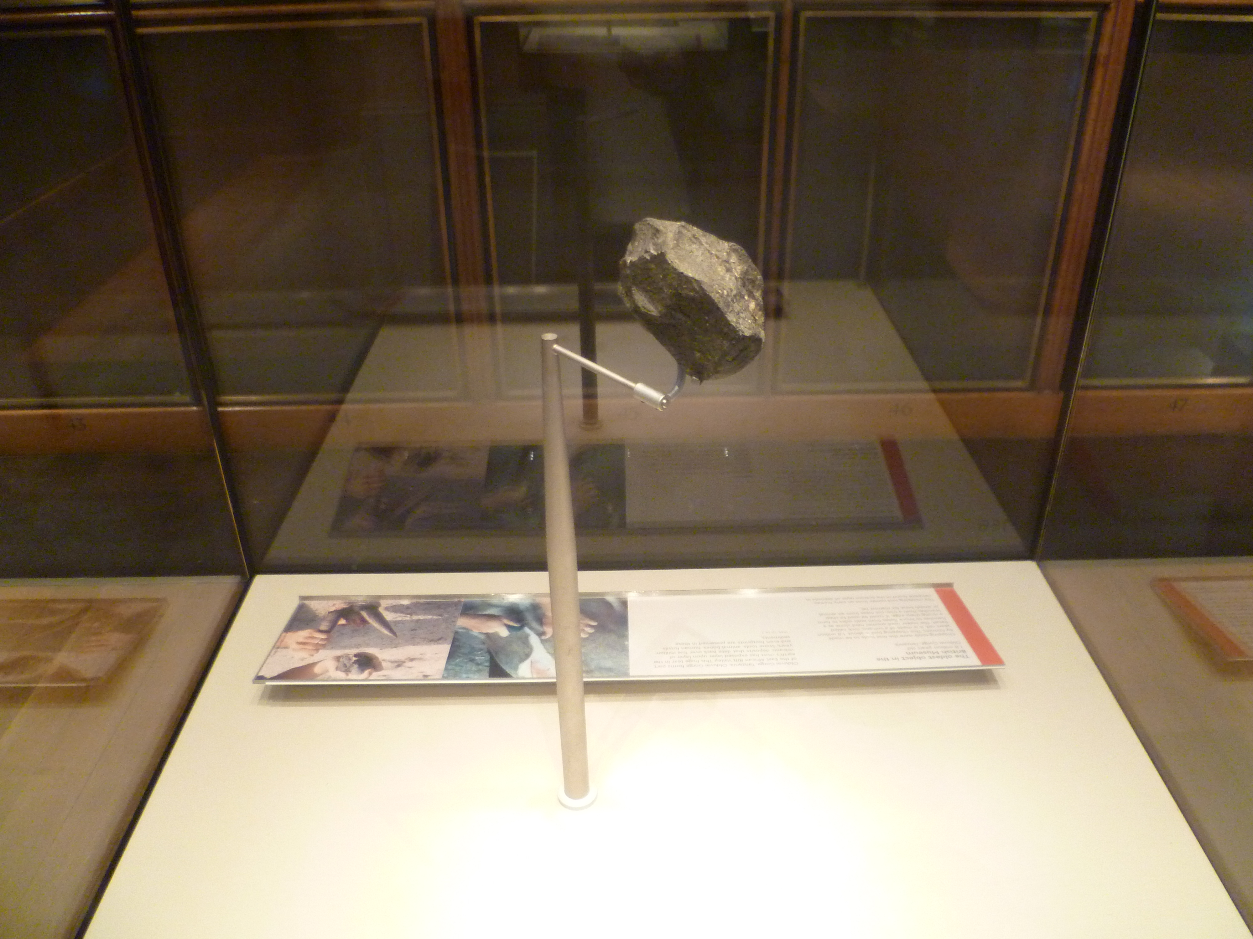 1.8 million years old human made object displayed at the British Museum.